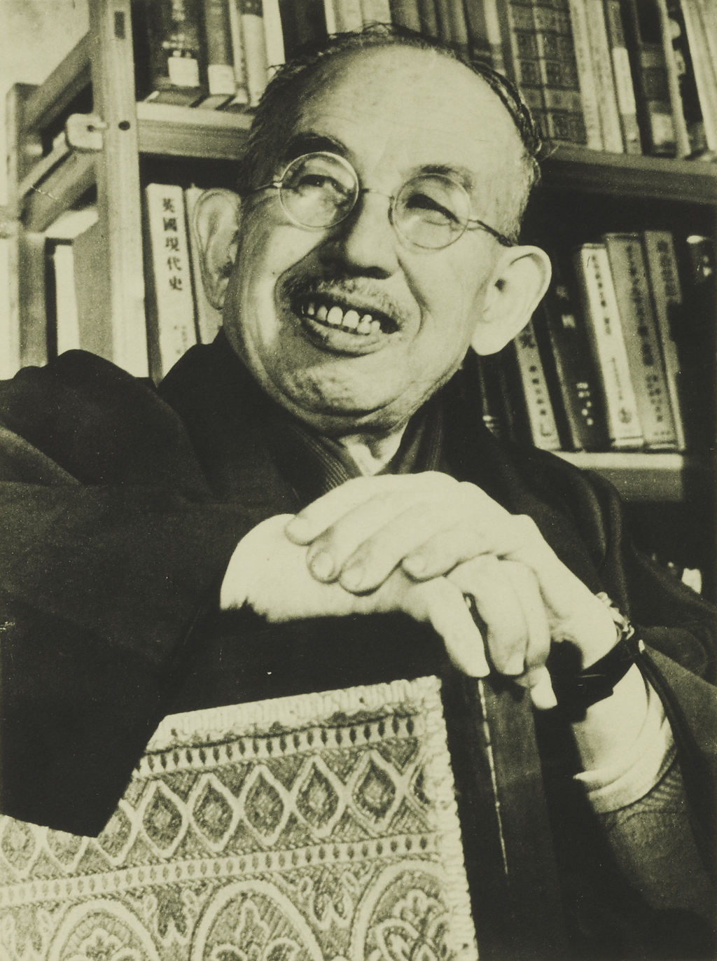 Portrait of Hozumi Shigeto (穂積重遠, 1883 – 1951)